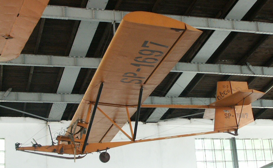 Polish glider IS-3 ABC s in the Polish Aviation Museum in Kraków.